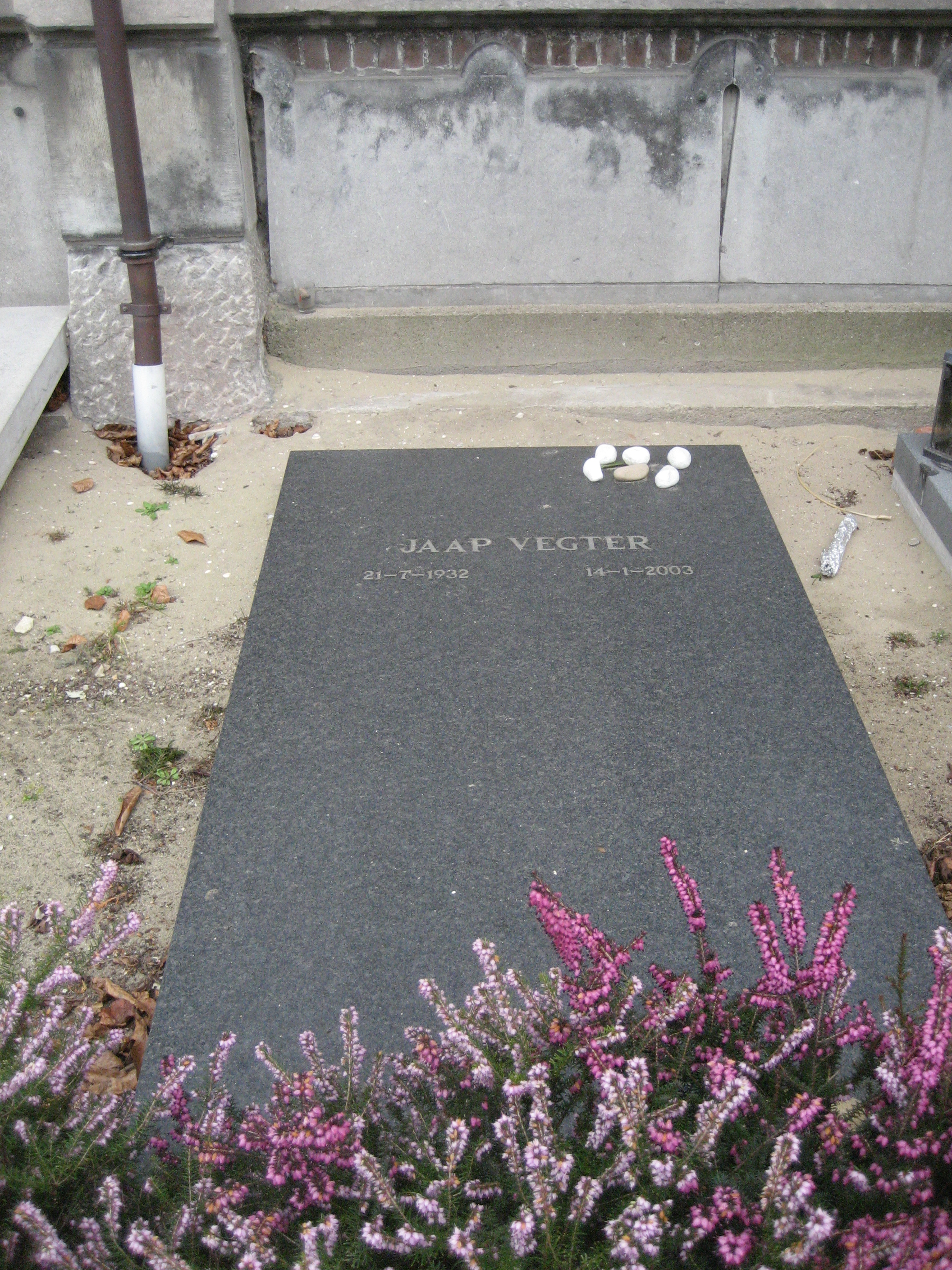 Grave of Jaap Vegter, Petrus Banden Cemetery, The Hague (The Netherlands)